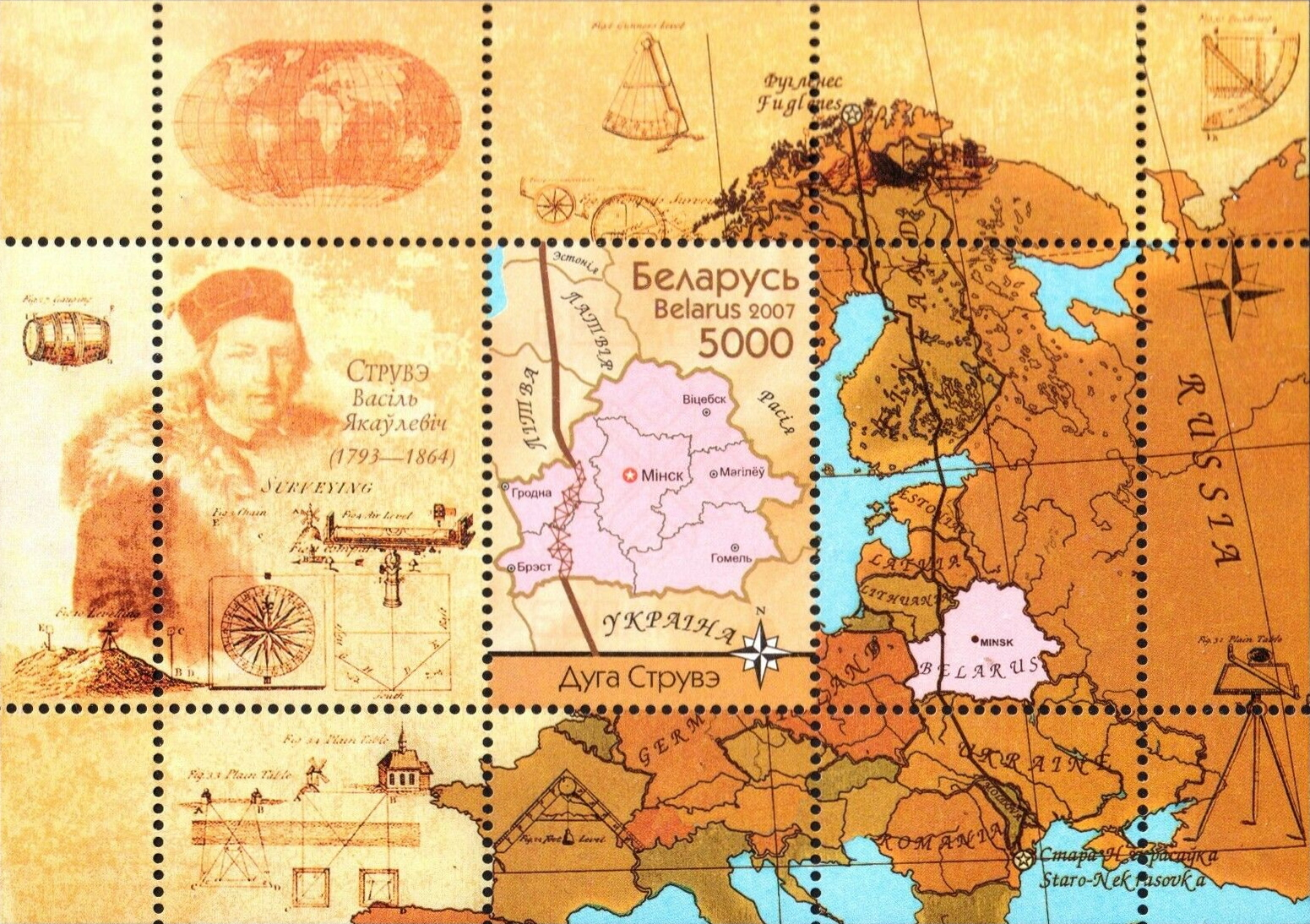 Stamp of Belarus